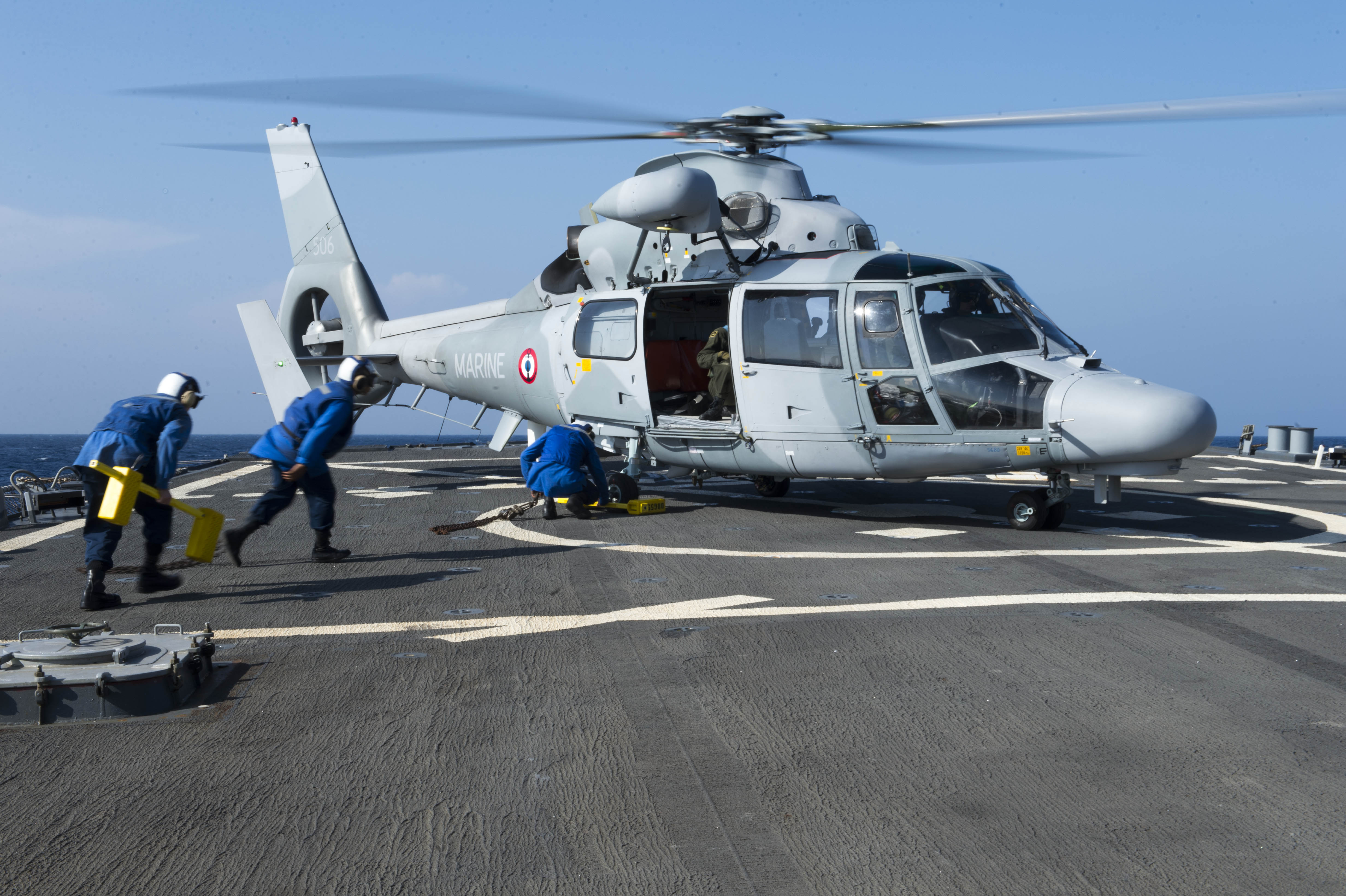 U.S. Navy sailors chock and chain a French Aéronavle Eurocopter AS565 Panther helicopter assigned to the French frigate Surcouf (F 711) aboard the guided-missile destroyer USS Stout (DDG-55) in the Mediterranean Sea. Stout was on a scheduled deployment in the U.S. 6th Fleet area of responsibility.